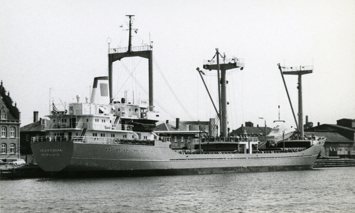 ISABELLA (IMO 6923242) built at J.J. Sietas Schiffswerft, Hamburg-Neuenfelde, in 1969 (yard № 641, Sietas type 63), photo by J. Robert Boman (1926 - 2002), copyright owned by Sjöhistoriska museet.